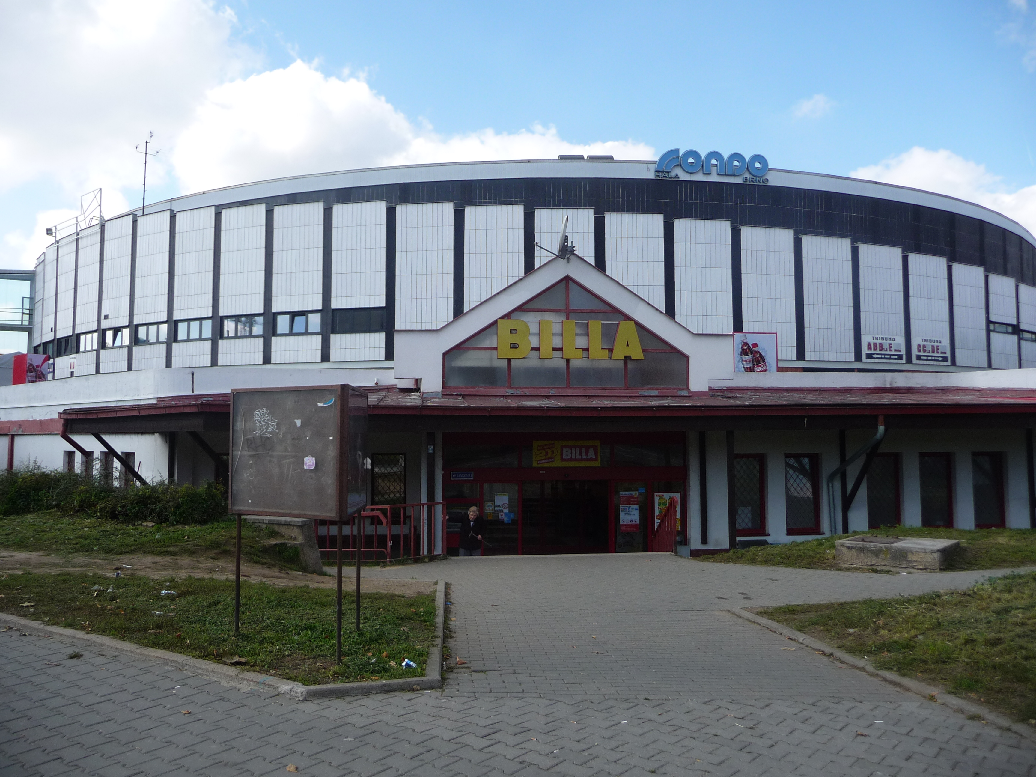 Hall Rondo, Brno